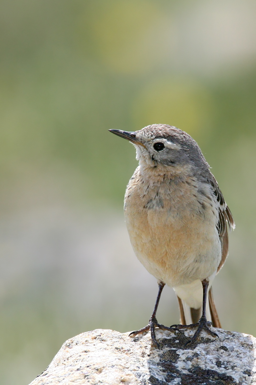 American Pipit / Anthus rubescens